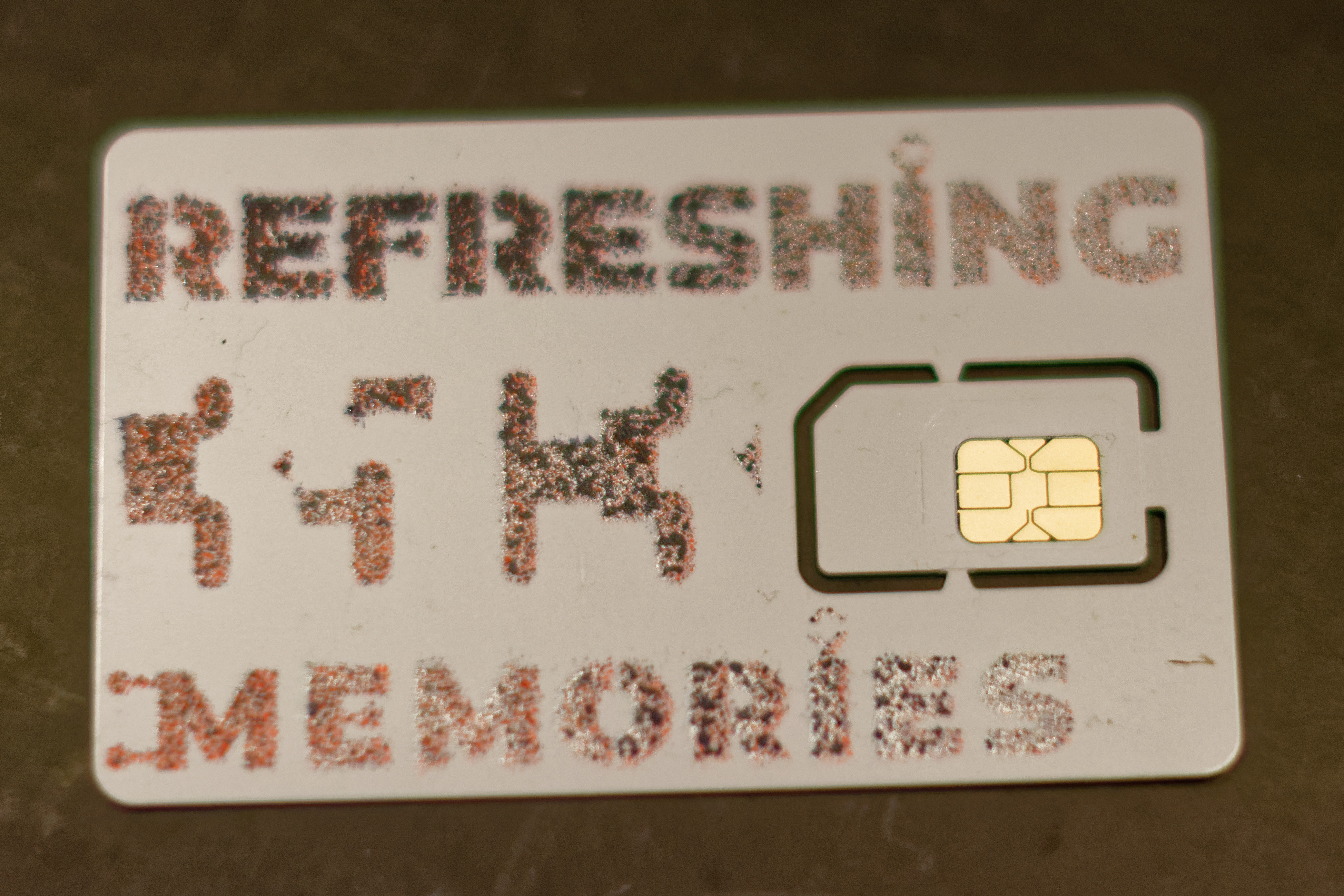 SIM card from the 35C3 (35th Chaos Communication Congress) SIM Card Art edition with refreshing memories logo. There were a total of 23 unique pieces (+ 1 artist´s proof), numbered and signed by ST Kambor-Wiesenberg.